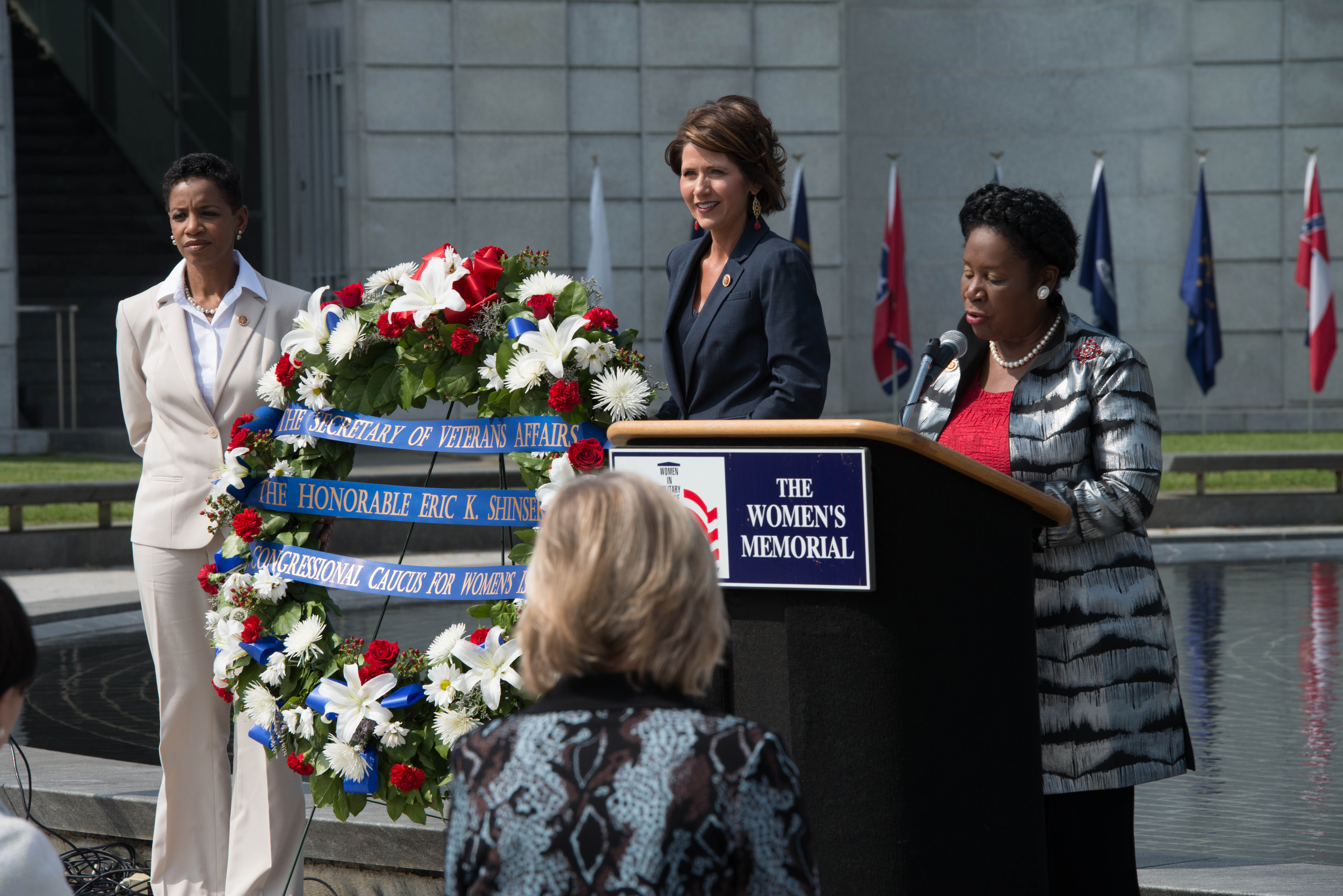 Congresswomen Donna Edwards, left, Kristi Noem, center, and Sheila Jackson Lee, right, present the wreath during the Women in the Military Wreath Laying Ceremony at the Women in Military Service for America Memorial at Arlington National Cemetery on May 22, 2013. U.S. Marine Corps photo by Cpl. Christofer P. Baines